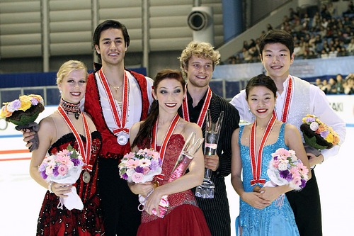 Kaitlyn Weaver / Andrew Poje (2), Meryl Davis / Charlie White (1) and Maia Shibutani / Alex Shibutani (3) at the 2010 NHK Trophy.